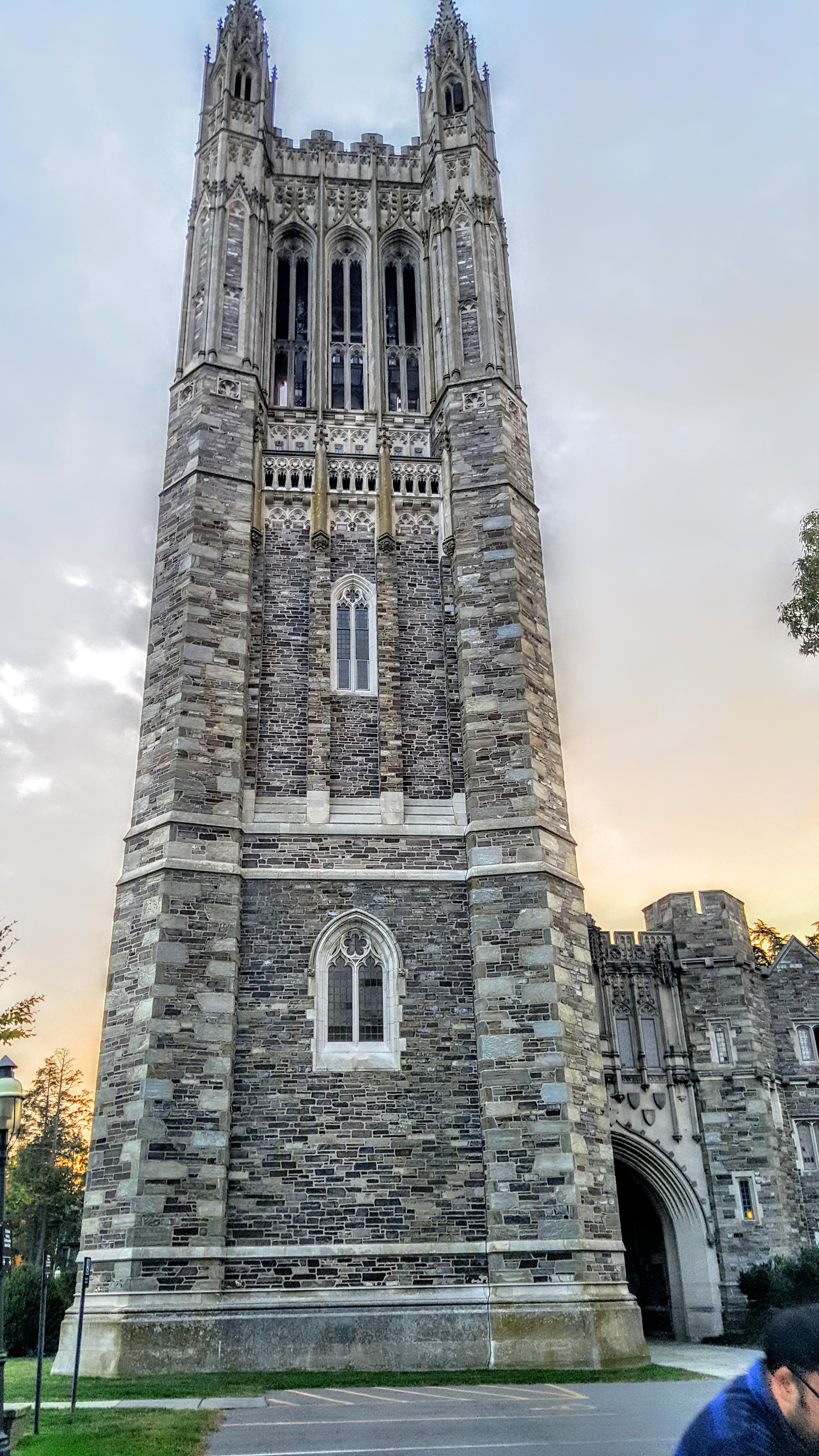 Cleveland Tower is a tower and carillon on the campus of Princeton University. Inspired by Boston College's Gasson Hall, the Ralph Adams Cram design is one of the defining architectural features of the Collegiate Gothic Graduate College. The tower was built in 1913 as a memorial to former university trustee and U.S. President Grover Cleveland. A bust of the former president is the centerpiece of the grand chamber at the tower's ground level.